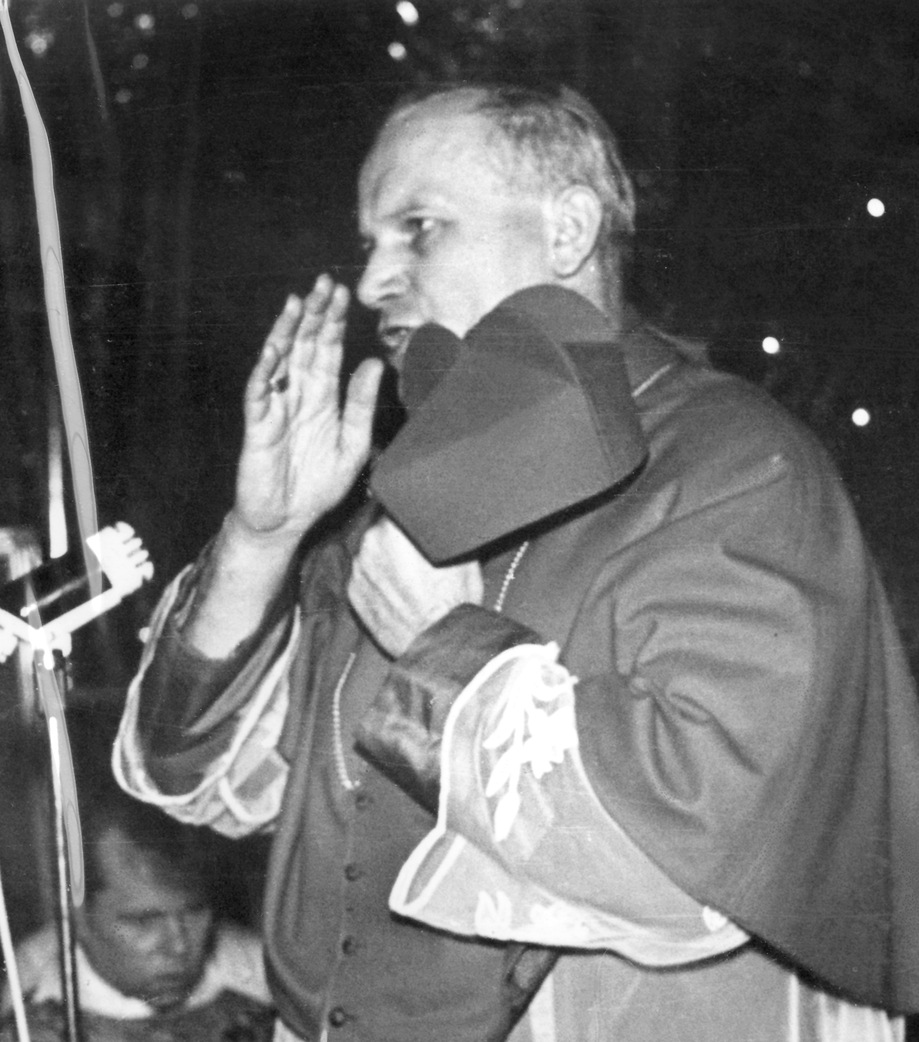 Karol Wojtyla - the pastoral visitation order oo. Carmelite on the Sand in Cracow, juny 1967